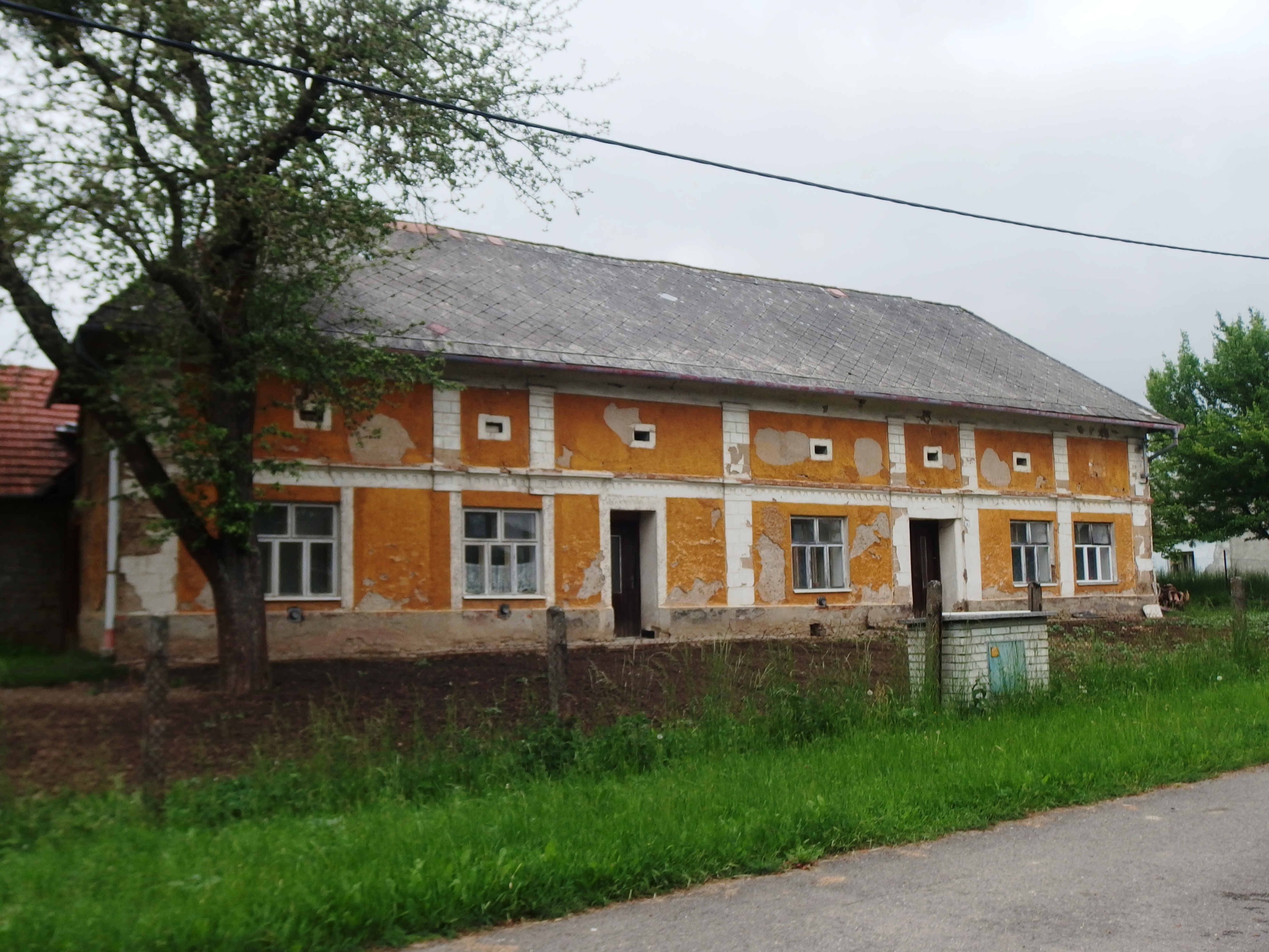 Kladníky, Přerov District, Czech Republic.